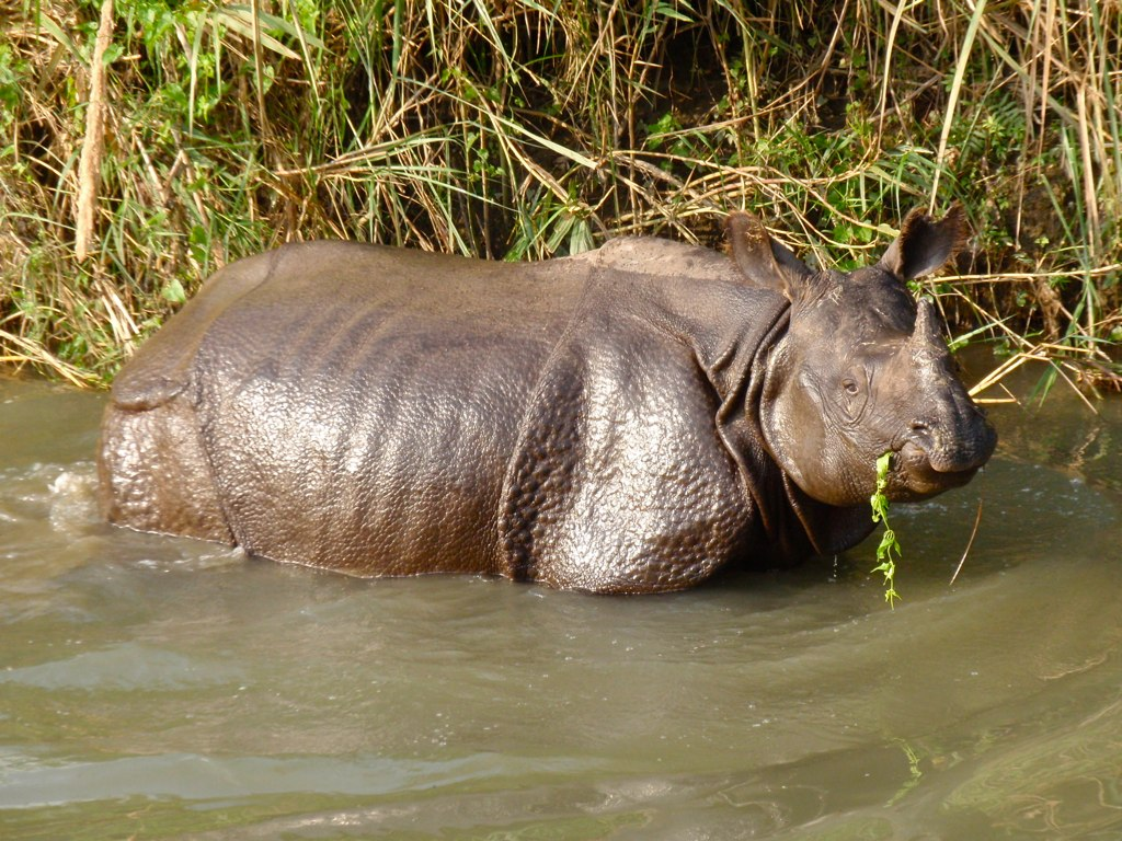 Chitwan National Park, Nepal